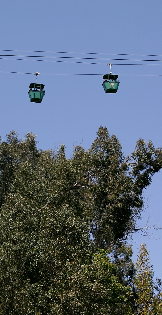 The gondola lift called Skyfari at the San Diego Zoo in San Diego, California, USA.